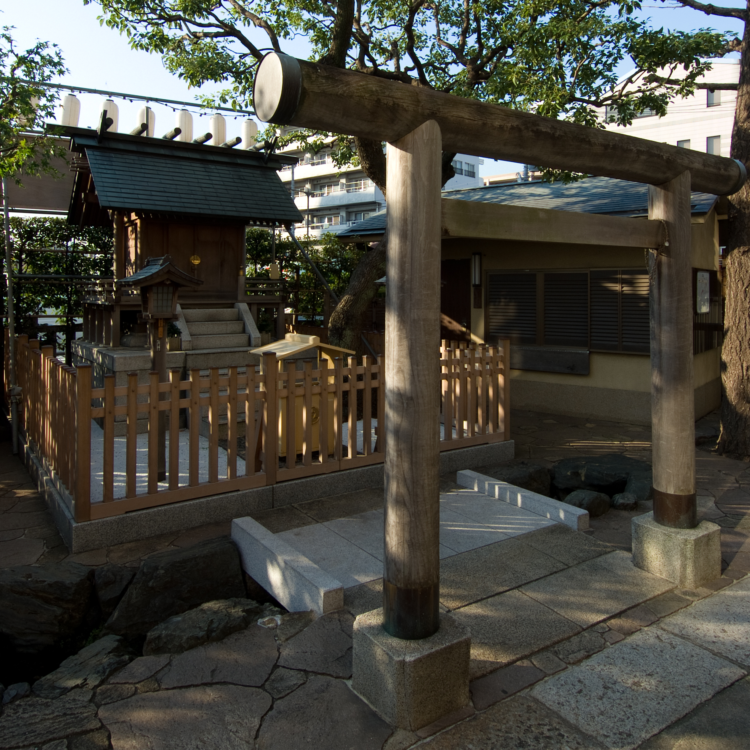 Nuke-Benten (Itsukushima Shrine, Shinjyuku), Shinjyuku-ku Tokyo Japan.